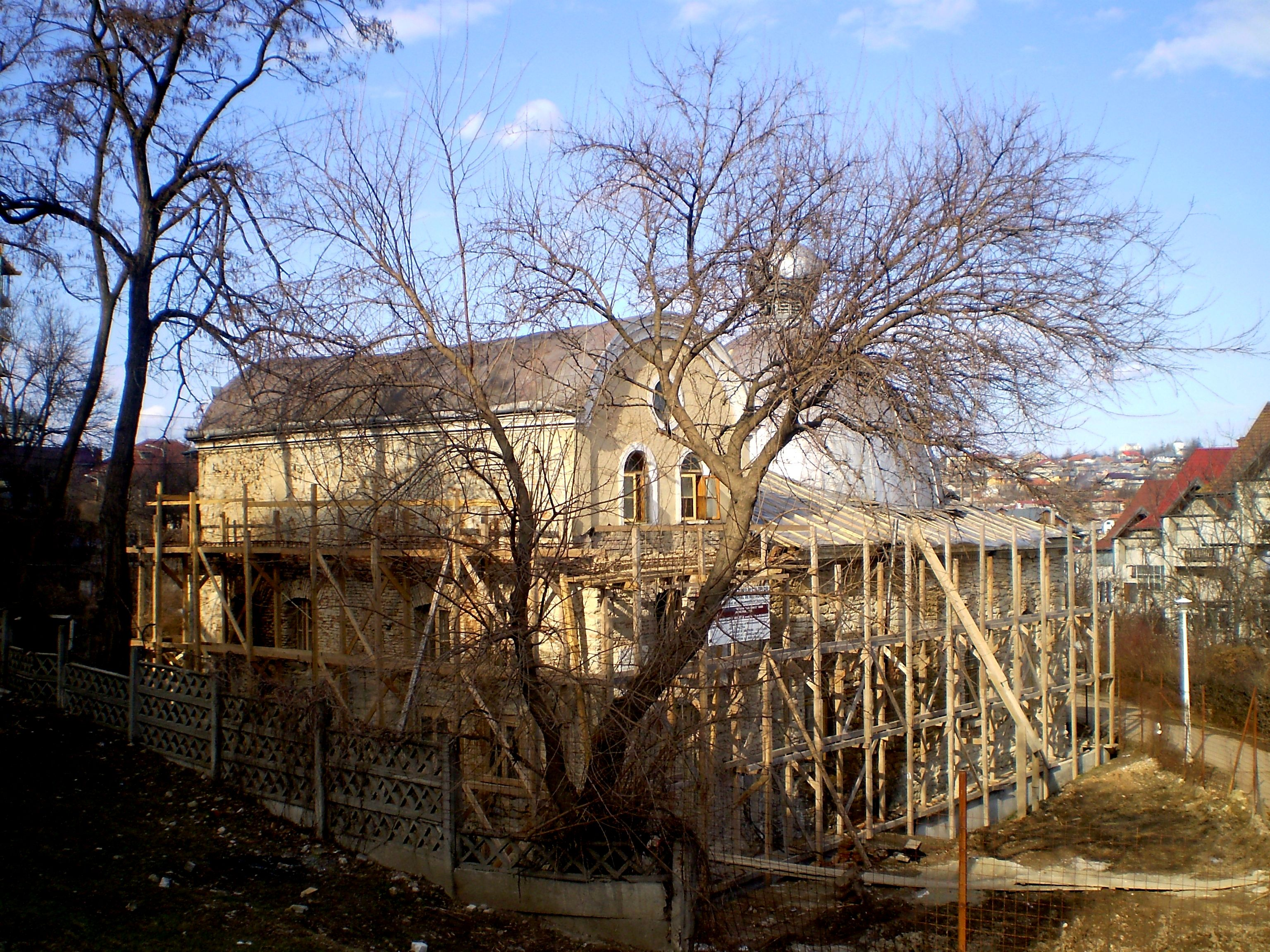 The Great Synagogue , Iaşi , RomaniaRomână: Marea Singogă din Iaşi , Iaşi , România